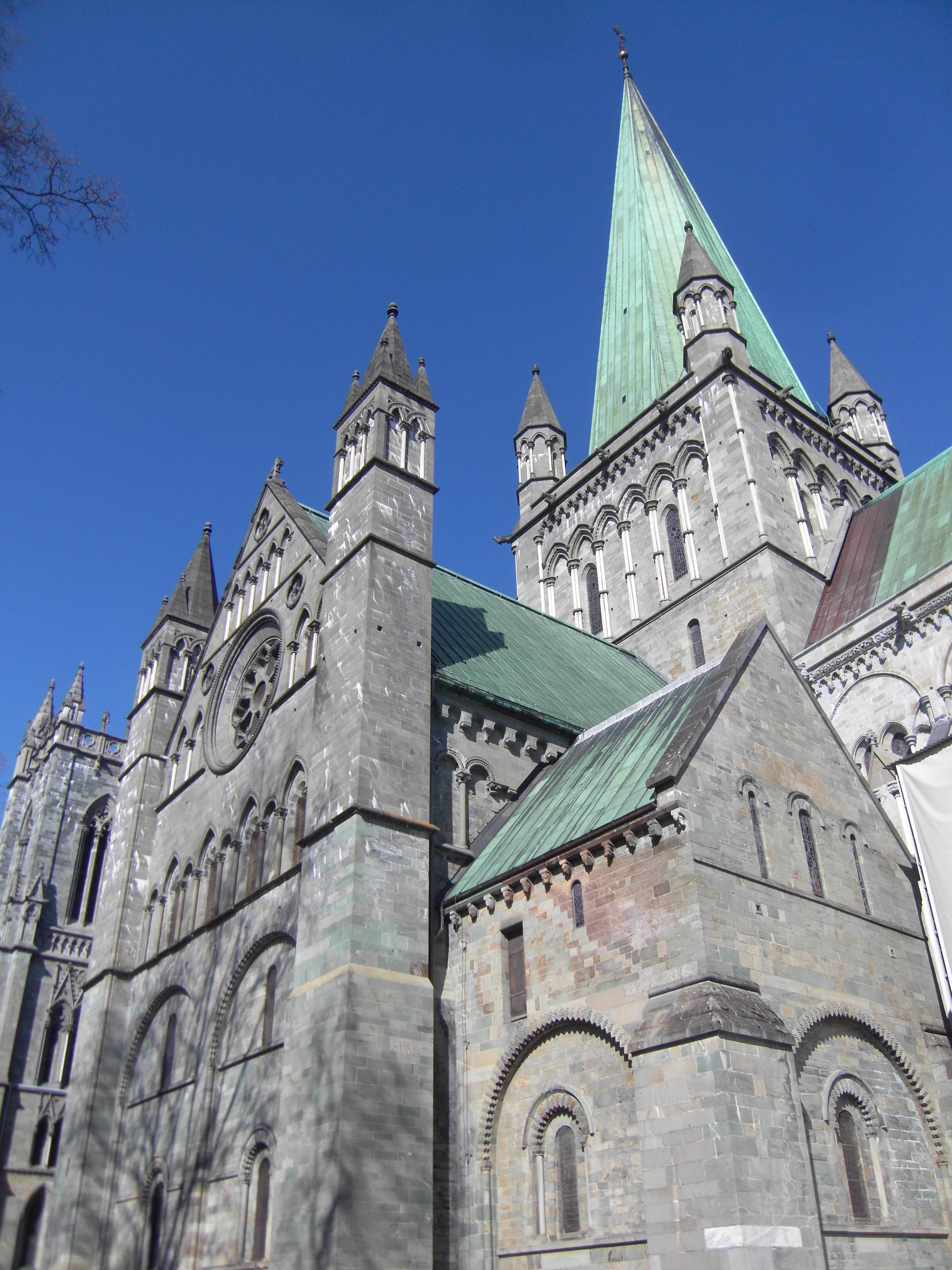 Nidaros